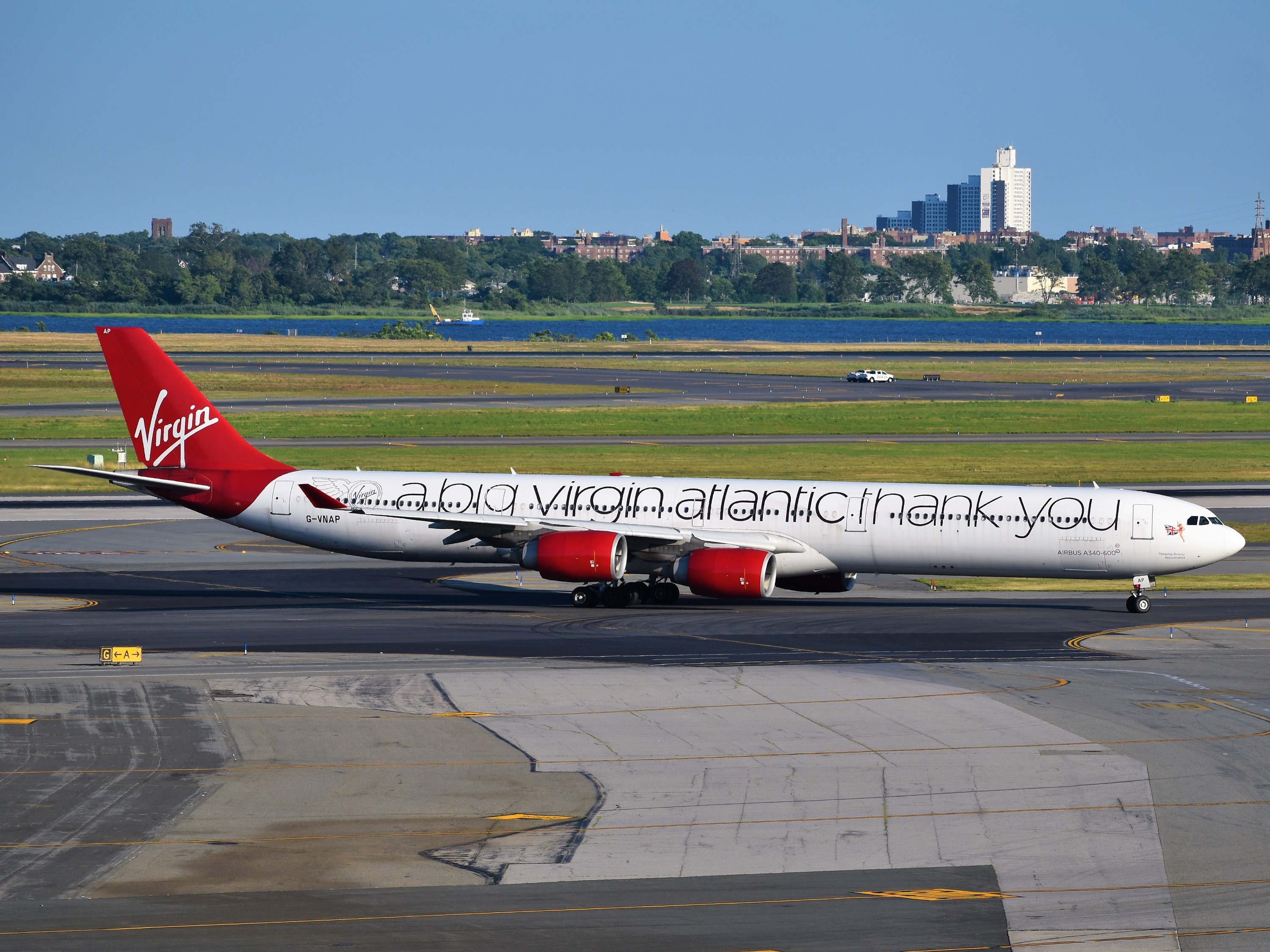 A Virgin Atlantic Airbus A340-642 plane, wearing A Big Virgin Atlantic Thank You titles after being returned to service following 3 years in storage is taxiing at JFK Airport..